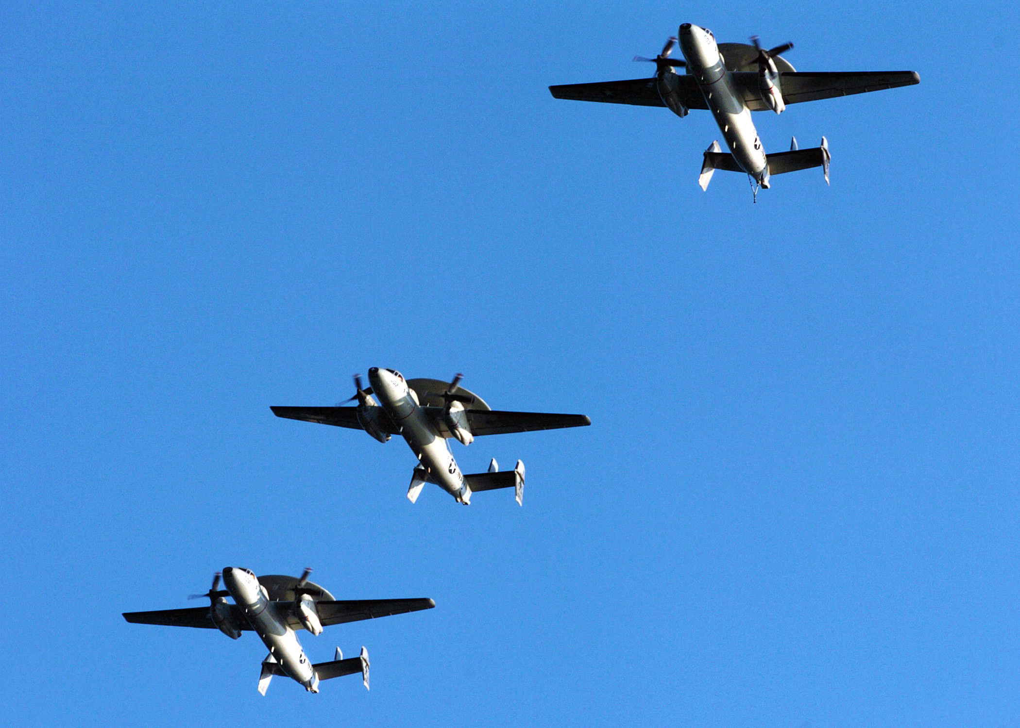 Persian Gulf (Dec. 10, 2004) – E-2C Hawkeyes, assigned to the “Seahawks” of Carrier Airborne Early Warning Squadron One Two Six (VAW-126), fly over the Nimitz-class aircraft carrier USS Harry S. Truman (CVN-75) prior to landing after a mission. Carrier Air Wing Three (CVW-3) embarked aboard Truman is providing close air support and conducting intelligence, surveillance and reconnaissance missions over Iraq. The Truman Strike Group is on a regularly scheduled deployment in support of the Global War on Terrorism. U.S. Navy photo by Photographer's Mate Airman Ryan O'Connor (RELEASED)